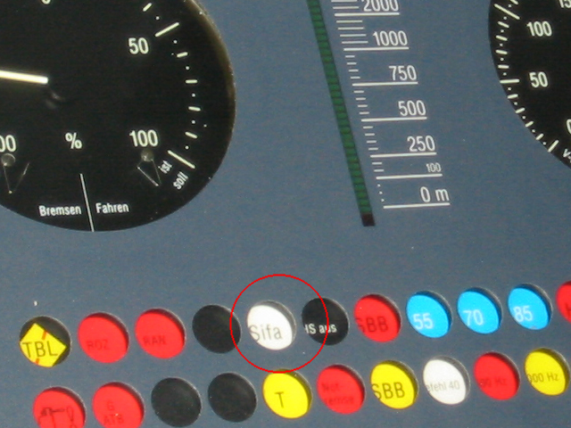 Sifa control display in an ICE3 high-speed train.